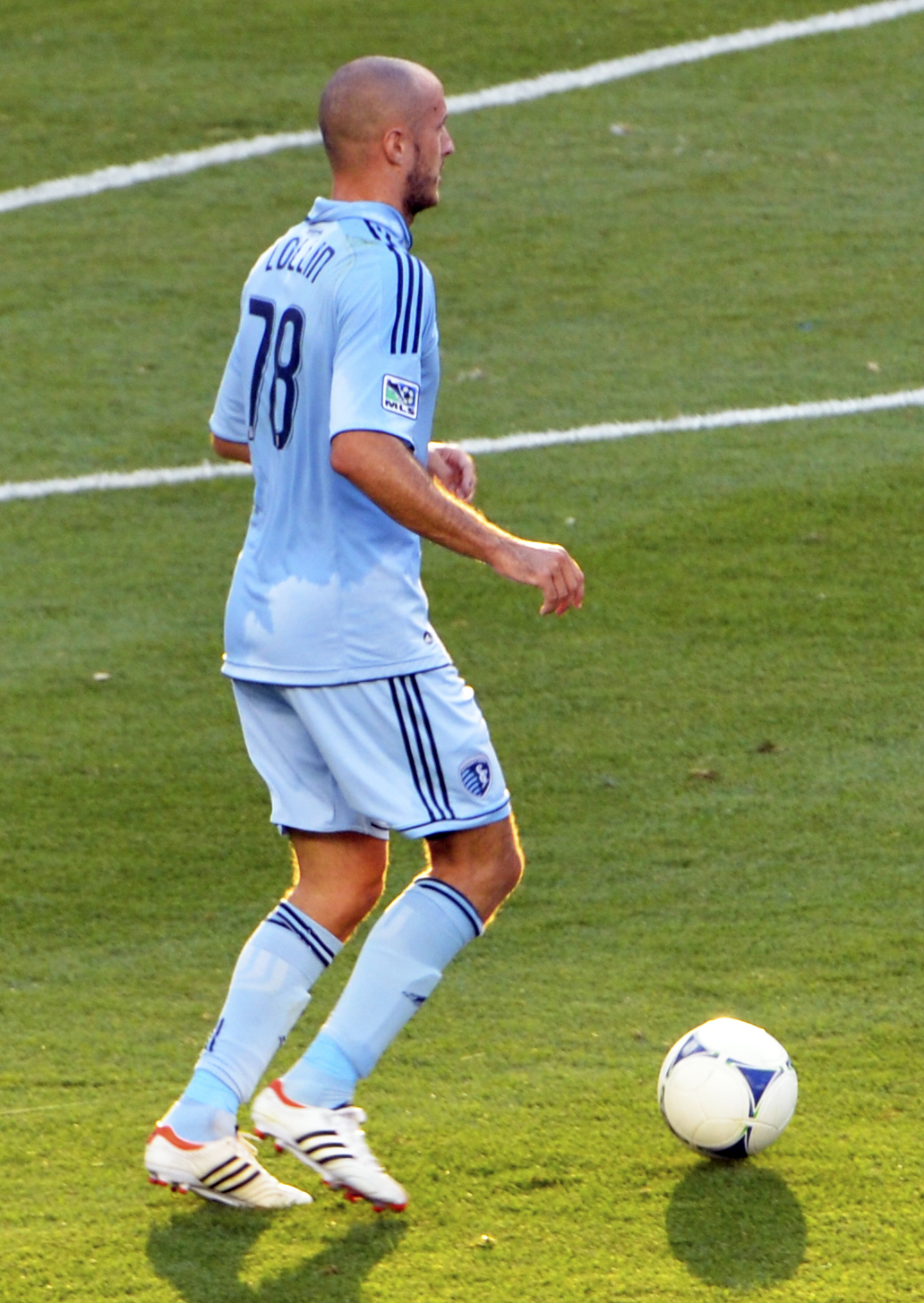 Aurelien Collin, a defender for Sporting KC develops the attack against the Houston Dynamo's on July 7th, 2021 at Livestrong Sporting Park, in Kansas City, Kansas.